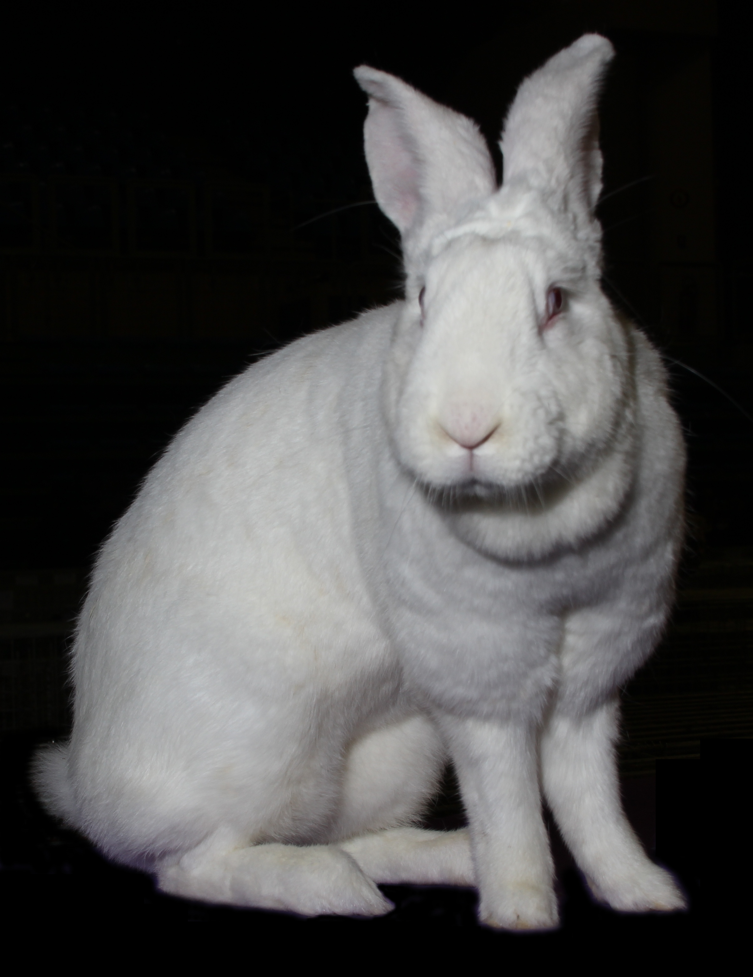 Female rabit Géant blanc du Bouscat at the Fair of agriculture and nature in Essonne 2013 held in Villebon-sur-Yvette, France.